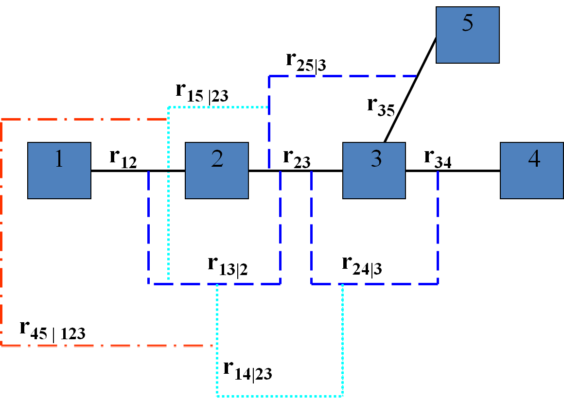 An example of a regular vine on 5 variables (from probability theory)